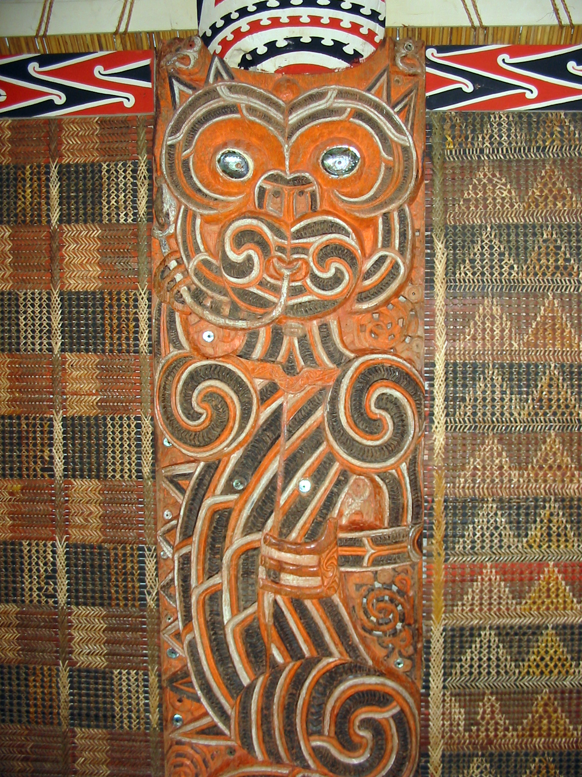 Ureia, guardian taniwha (sea creature), depicted in a carved poupou (house post) from the interior of Hotunui, a carved meeting house of the Ngati Maru people, Thames, New Zealand. This house was built in 1878 by Ngati Awa carvers from Whakatane, as a wedding present when a woman of their tribe married a Ngati Maru leader. The house is now in the Auckland War Memorial Museum.